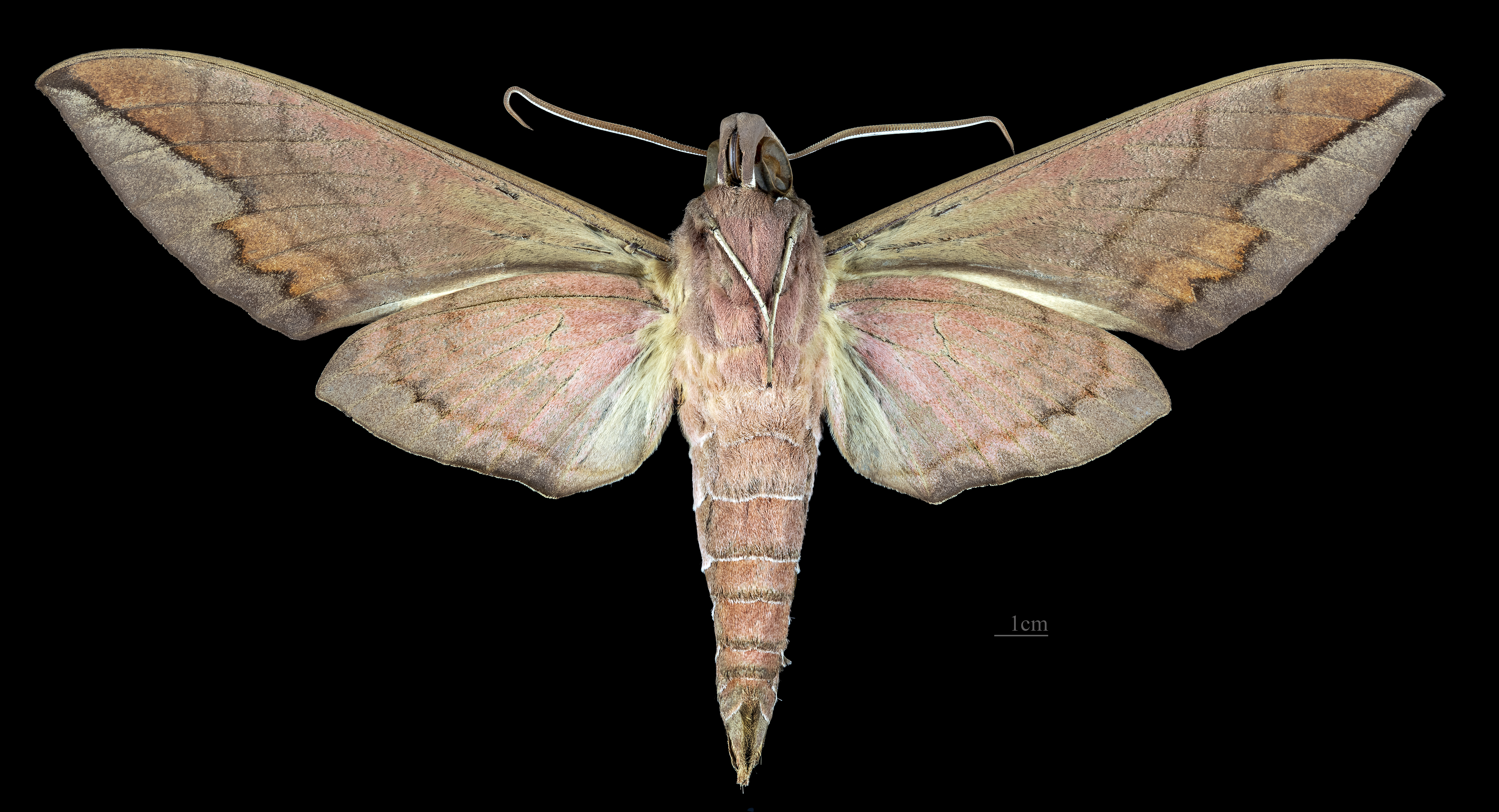 Eumorpha triangulum - △ Ventral side Collection of the Mathematician Laurent Schwartz